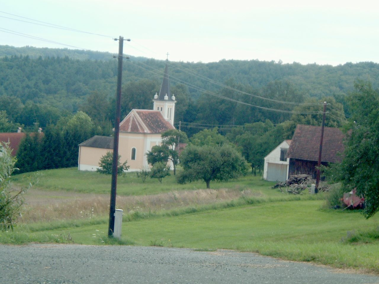 Kroatisch Ehrensdorf (Horváthásos), Burgenland